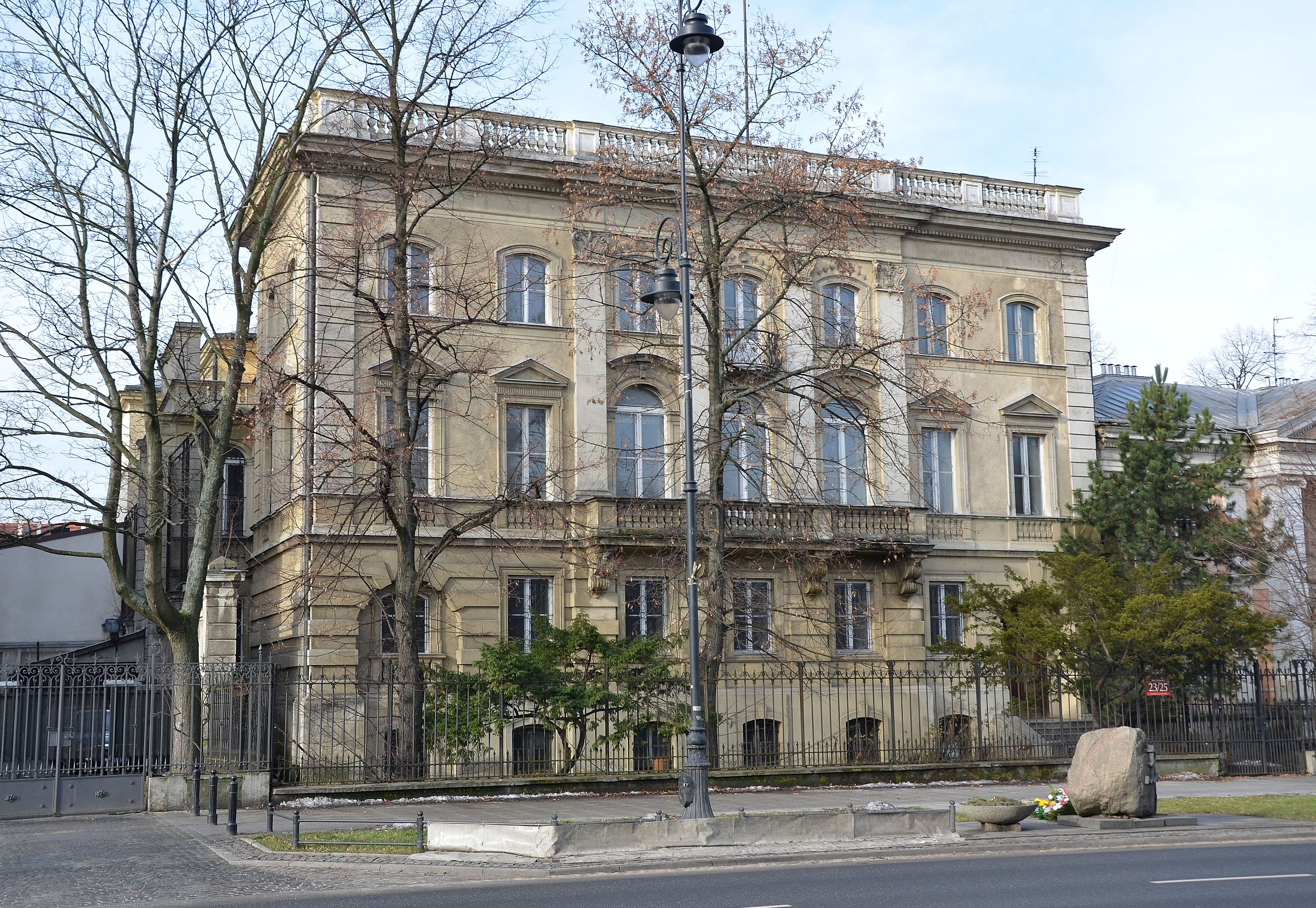 Gawroński Villa at 23 Ujazdowskie Avenue in Warsaw